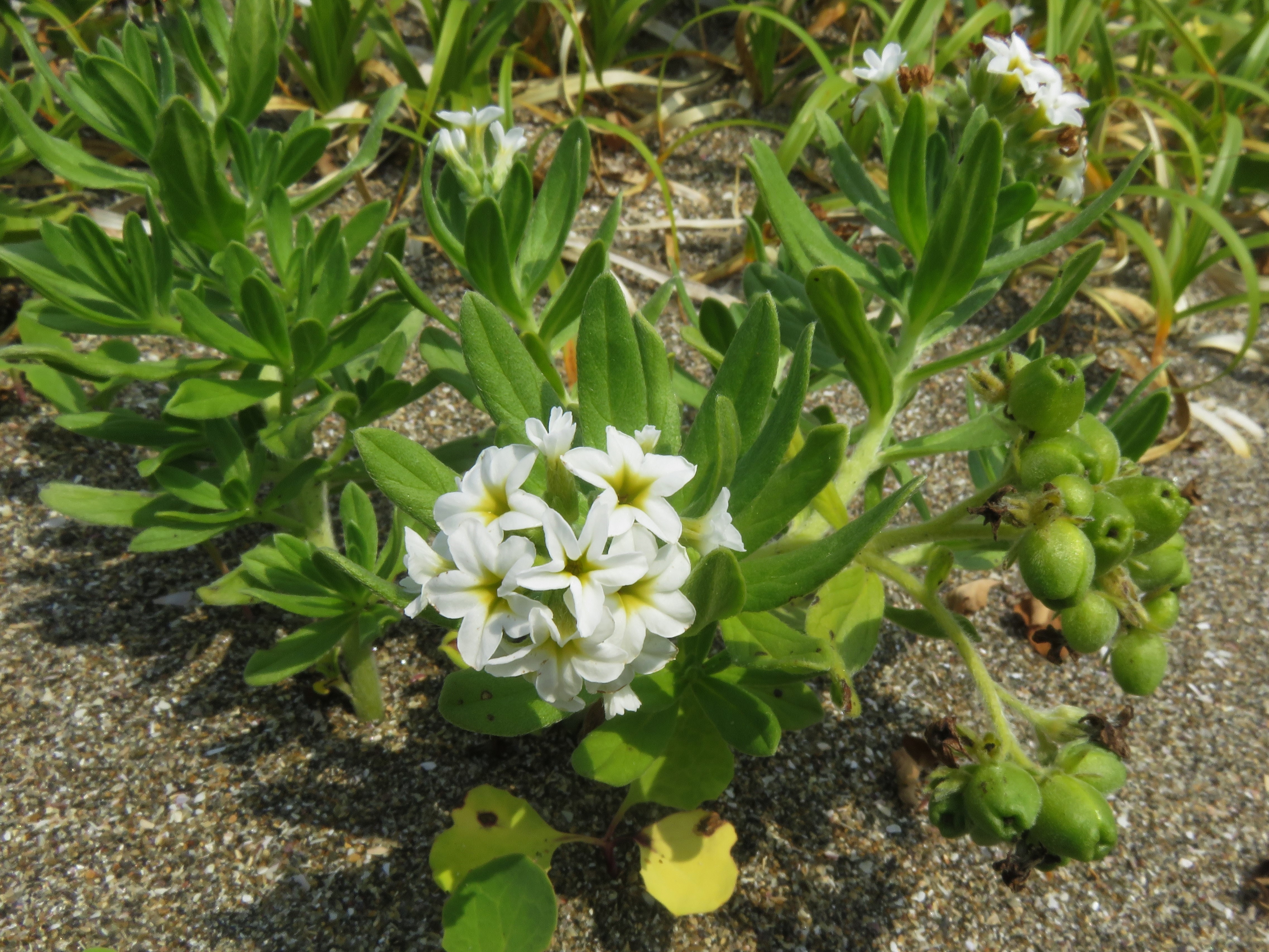 Heliotropium japonicum, Tanesashi Coast, Aomori pref., Japan